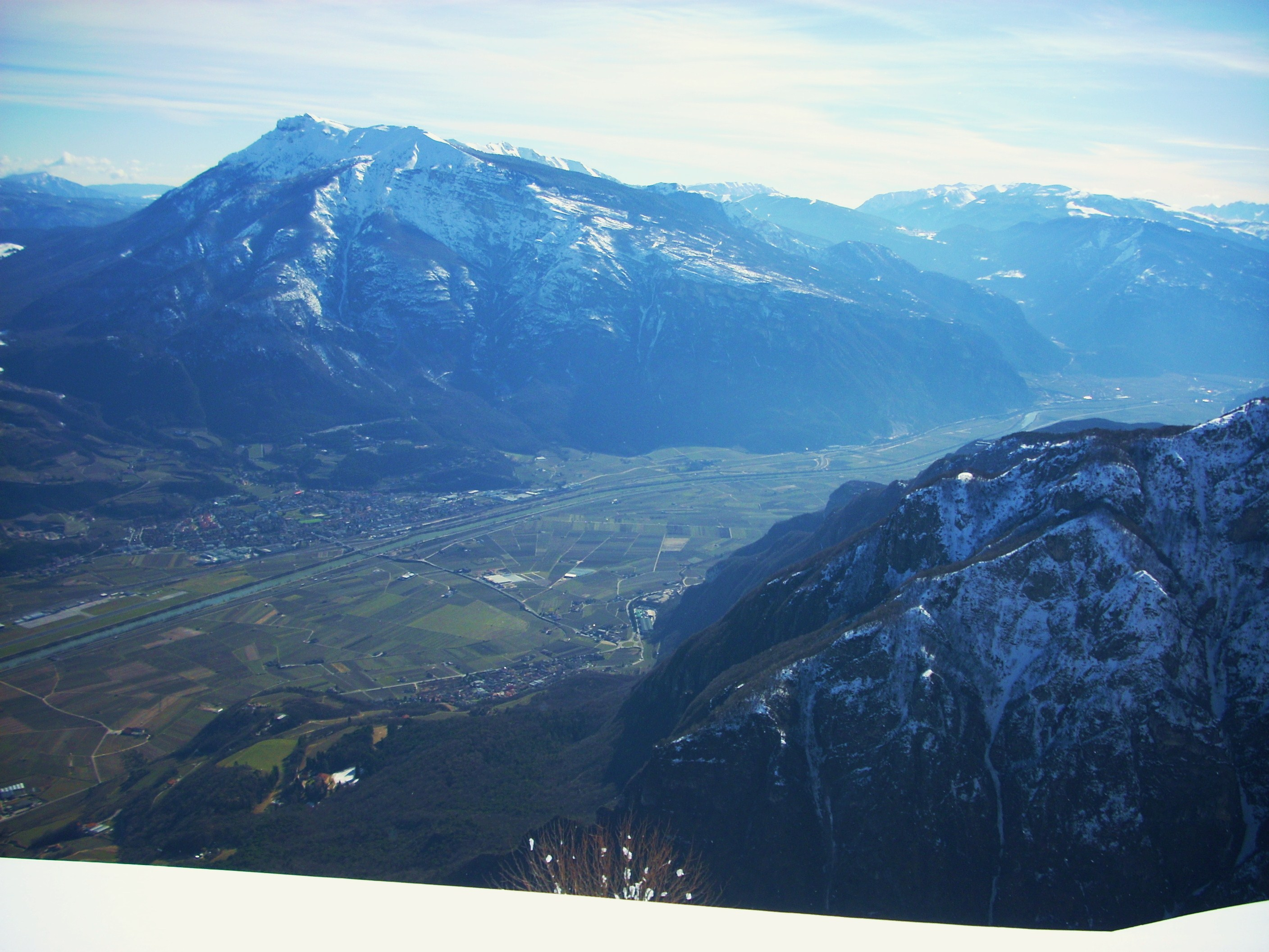 Trento (Italy): the villages of Mattarello and Romagnano viewed from Val di Gola, with mount Vigolana on the background.